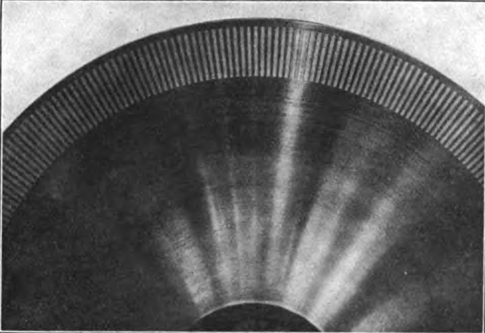 Closeup of the rotor of an Alexanderson alternator a rotating machine used from about 1906 to 1930 as a longwave radio transmitter in high power transoceanic wireless telegraphy radio stations which transmitted telegrams by Morse code between nations. The Alexanderson machine was an induction generator, The rotor was a solid piece of high tensile steel with narrow slots cut in the periphery. The narrow "teeth" between the slots functioned as the rotor's magnetic "poles". The stator was a circular steel piece with a U shaped cross section which embraced the rim of the rotor, creating a magnetic field passing axially through the rim. The stator had a number of "teeth" or poles equal to the rotor. As the rotor turned, the rotor teeth would alternately line up with the stator teeth and fall between them. When a rotor tooth was between the stator teeth, it would increase the magnetic flux between the poles. When the tooth passed between them, the flux would decrease. This alternating magnetic flux would induce an alternating current in windings around the poles. This rotor from a powerful 200 kW machine had 300 pole pairs and could turn at up to 20,000 revolutions per minute, generating frequencies up to 100 kHz. The Alexanderson alternator was designed in 1906 by Reginald Fessenden and Ernst Alexanderson